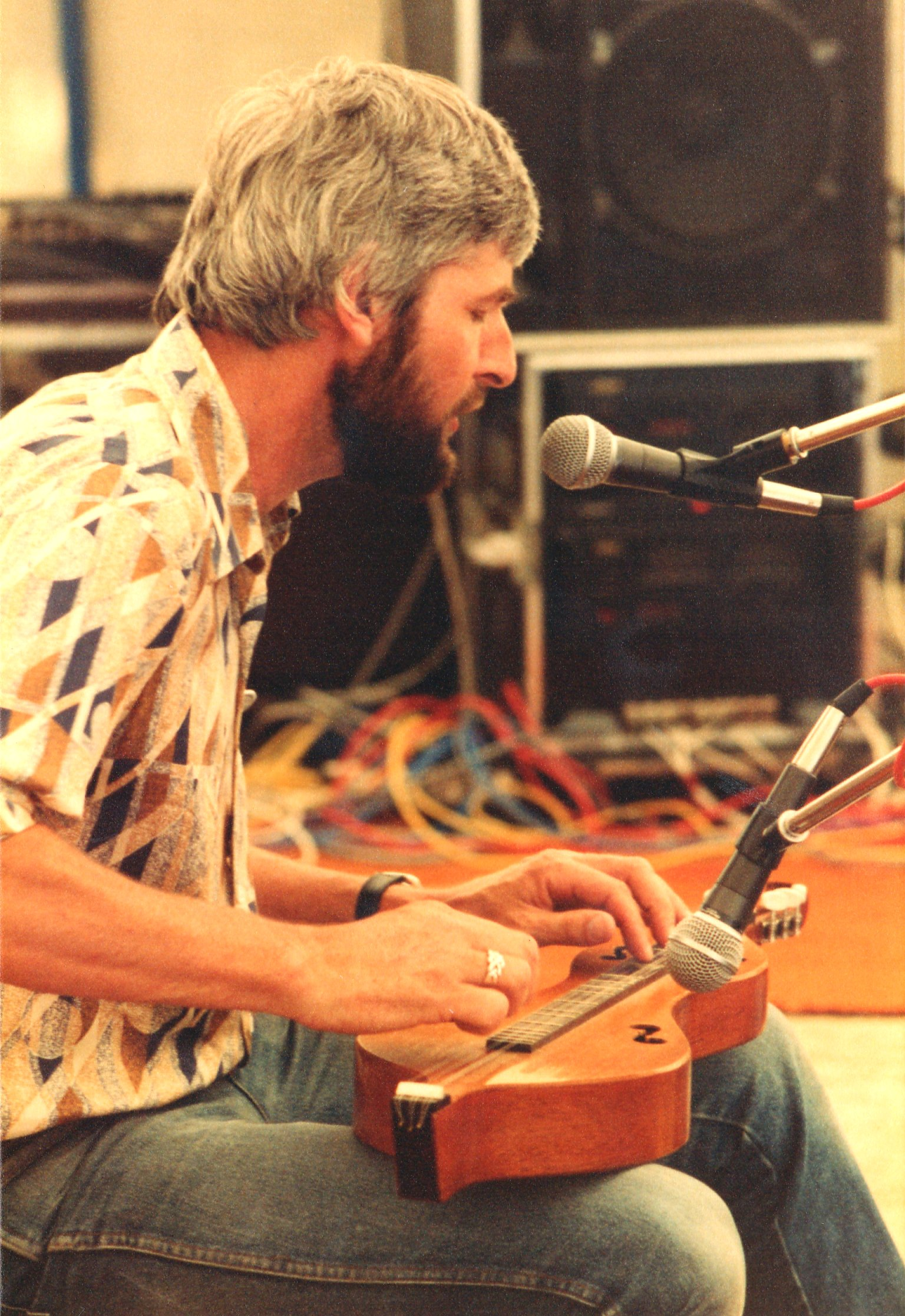 Paul Metsers, UK/New Zealand singer-songwriter on stage at the 1982 Trowbridge Village Pump Folk Festival (Tony Rees photograph)